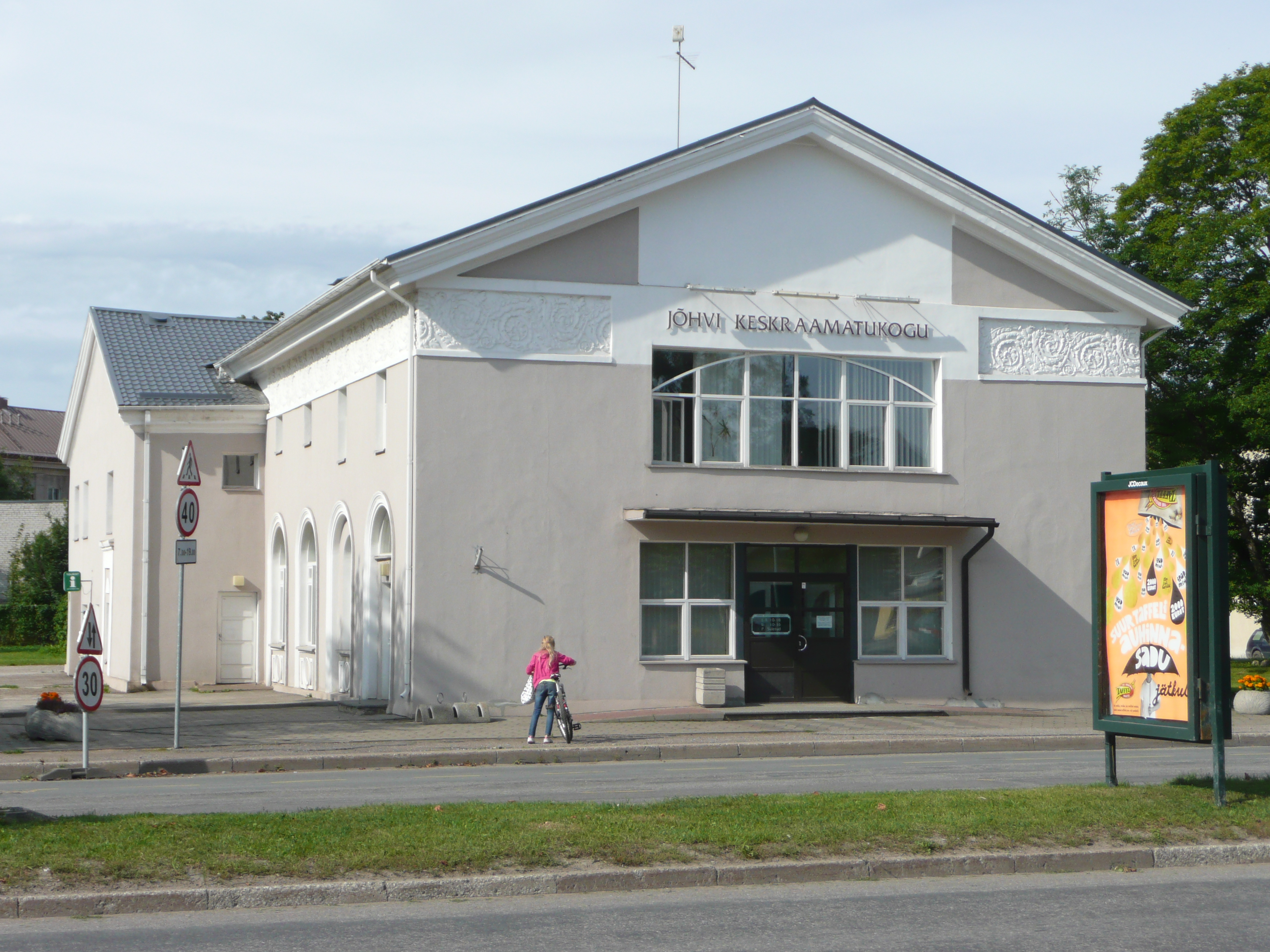 The building of the Jõhvi Central Library (August 2013).